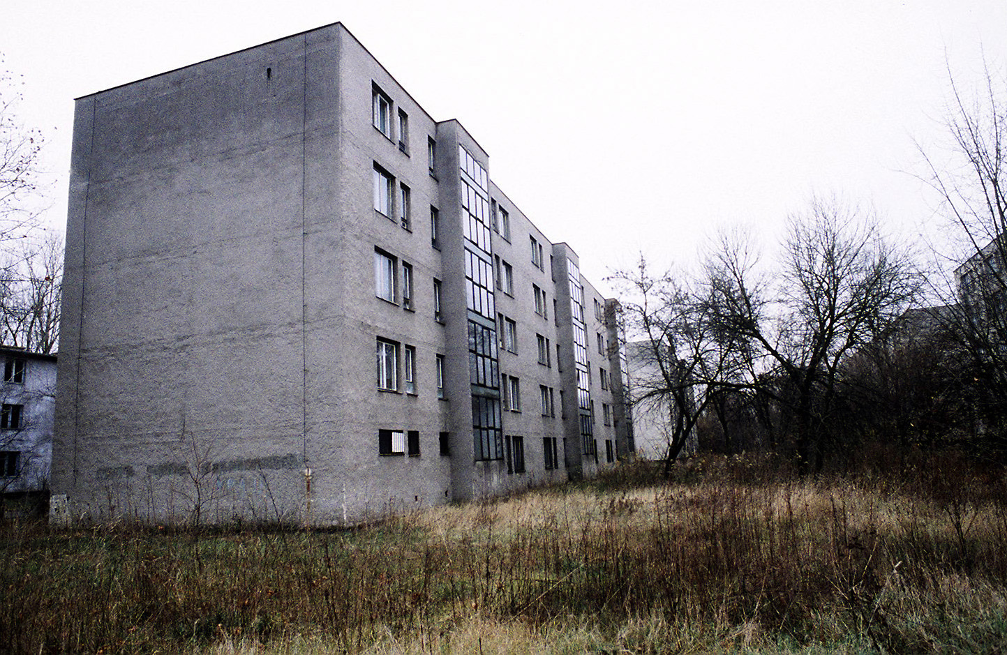 Dormitories designated for possible American use at Sarmellek Airport in southern Hungary, but it is not part of the airport. Many of the facilities at this civilian airport haven't been used since the airport operated as a Soviet Air Base. U.S. Air Force and Army units from across Europe and the United States combined forces from 16–21 November, 1995, to survey the condition of four airfields and base facilities in Hungary for possible use by U.S. forces should they be sent as a peacekeeping force in Bosnia. Bases surveyed were Fokto, a former Soviet helicopter base; Taszar, an active Hungarian Air Base with three Mig-29 squadrons, Sarmellek, a former Soviet Air Base, now a civilian airport supporting some military; and Kiskunlachaza, a closed Soviet Mig base in caretaker status.